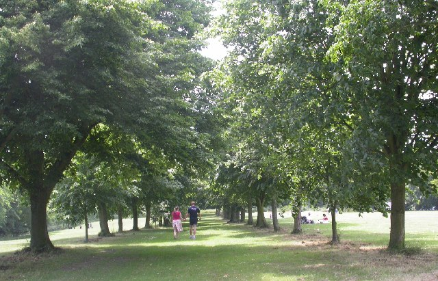 Farnham Park. Avenue of trees leading to Farnham Castle